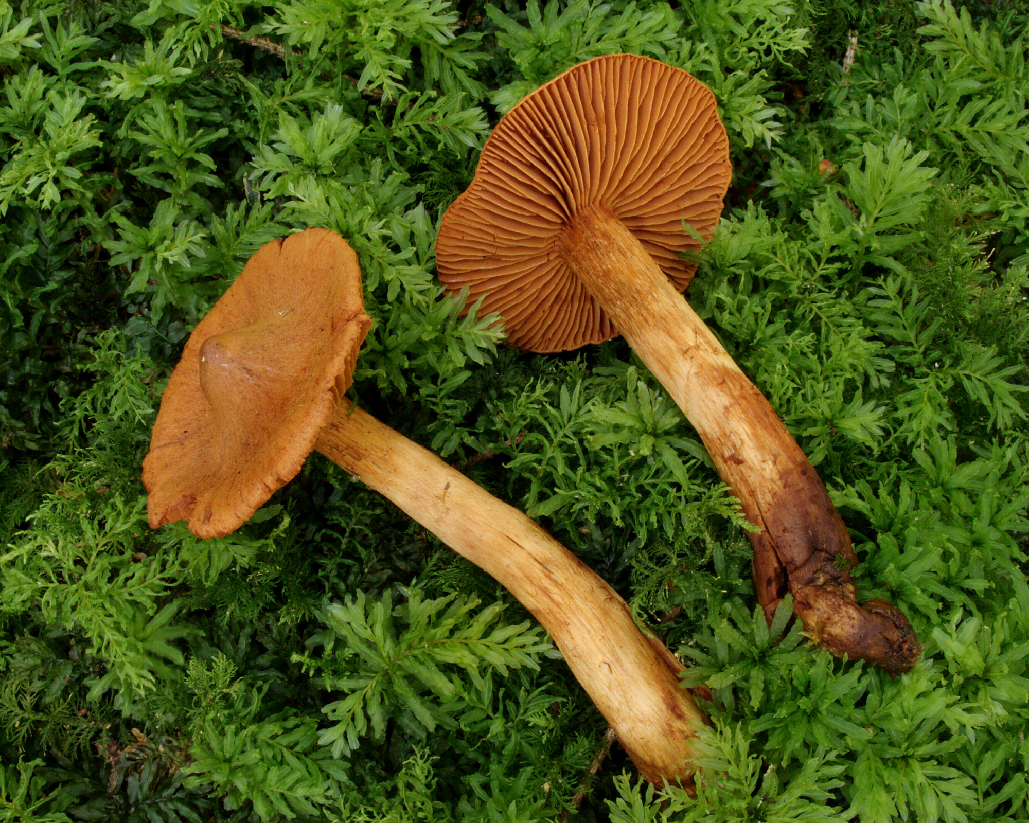 Deadly Webcap (Cortinarius rubellus)